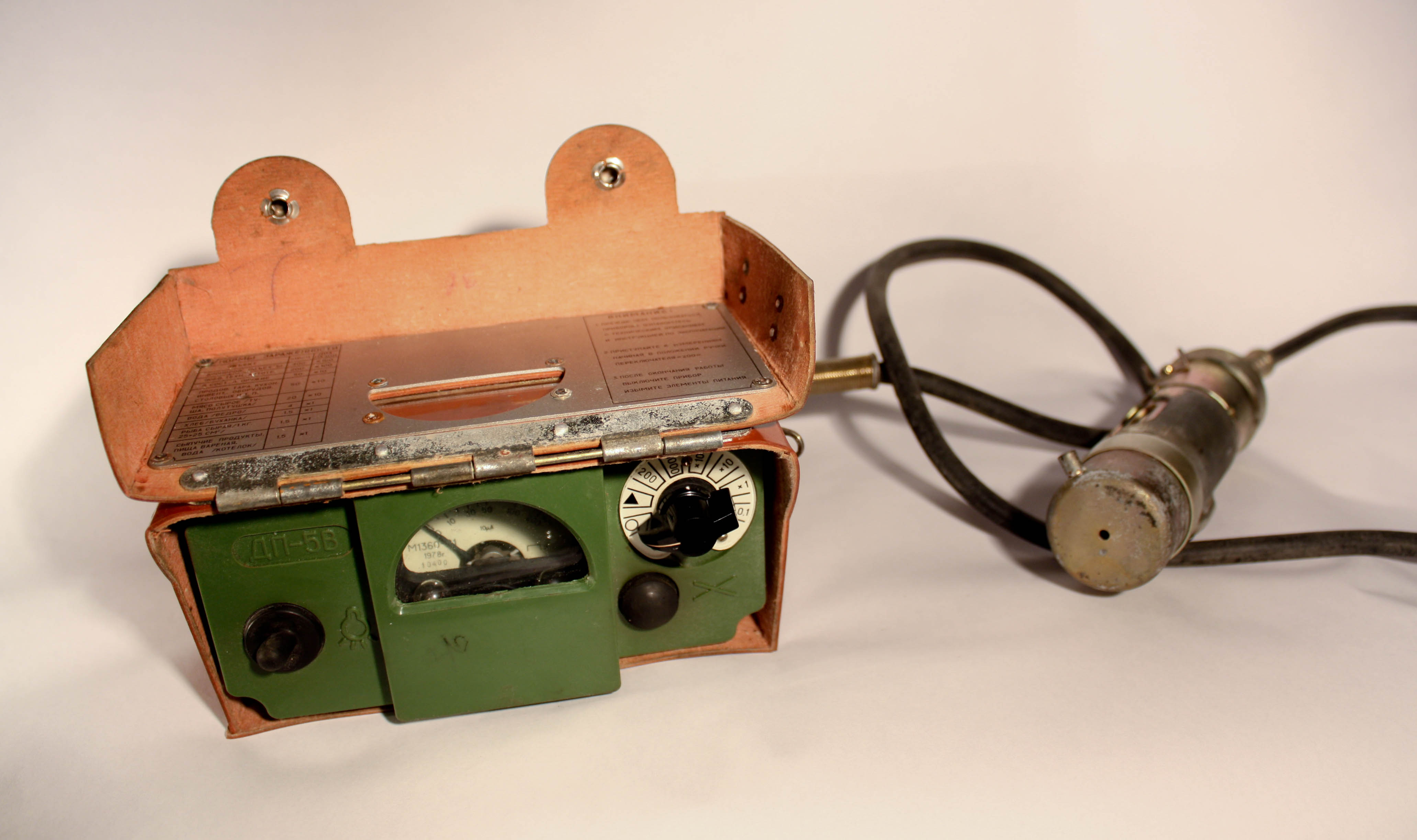 Soviet military dosimeter ДП-5В. Front view with detector.